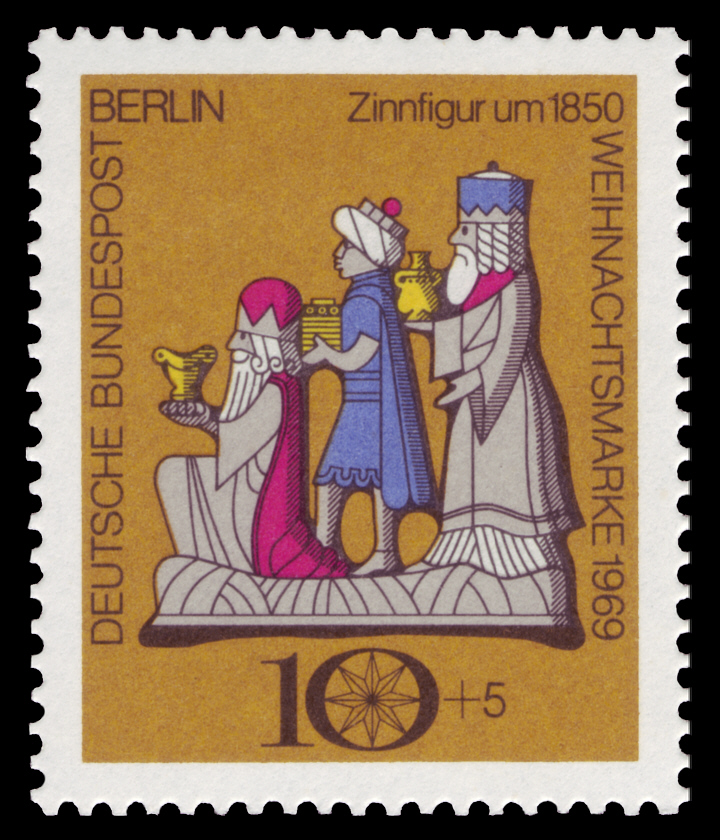 Christmap stamp with additional social fee, 1969 Ausgabepreis: 10+5 Pfennig First Day of Issue / Erstausgabetag: 13. November 1969 Michel-Katalog-Nr: 352 (Berlin) Designer:Schillinger